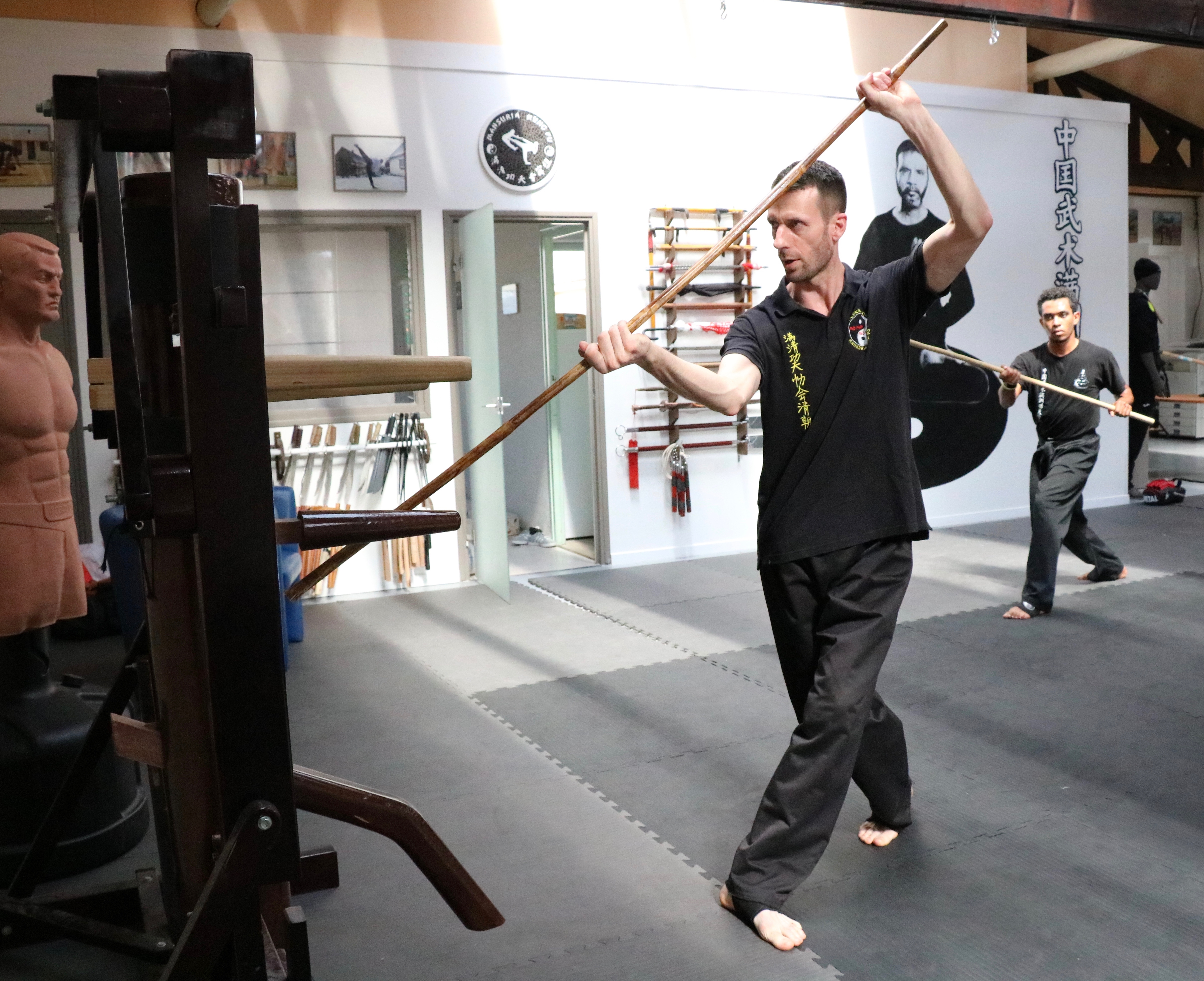 Long stick technique on dummy in Mansuria Kung Fu, by Master Derosière.